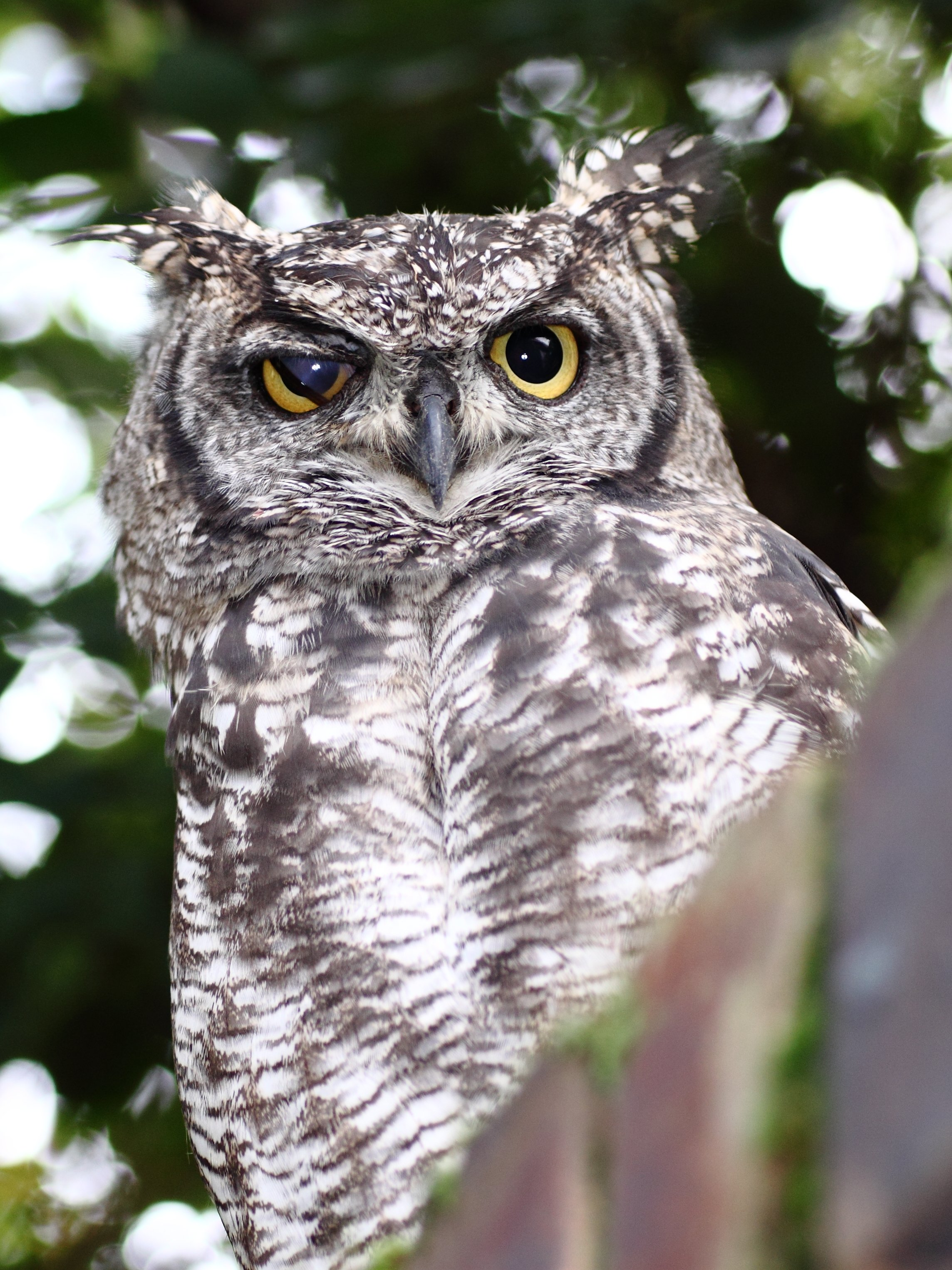 Spotted Eagle-owl Bubo africanus in Johannesburg South Africa Showing Nictitating Eyelid